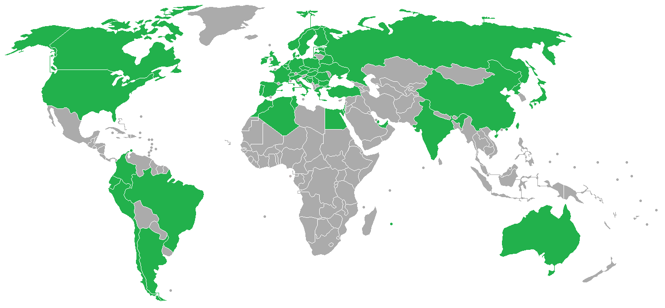 List of countries with tram networks (does not include light metro systems and horse tramways) Countries with tram networks Countries without tram networks